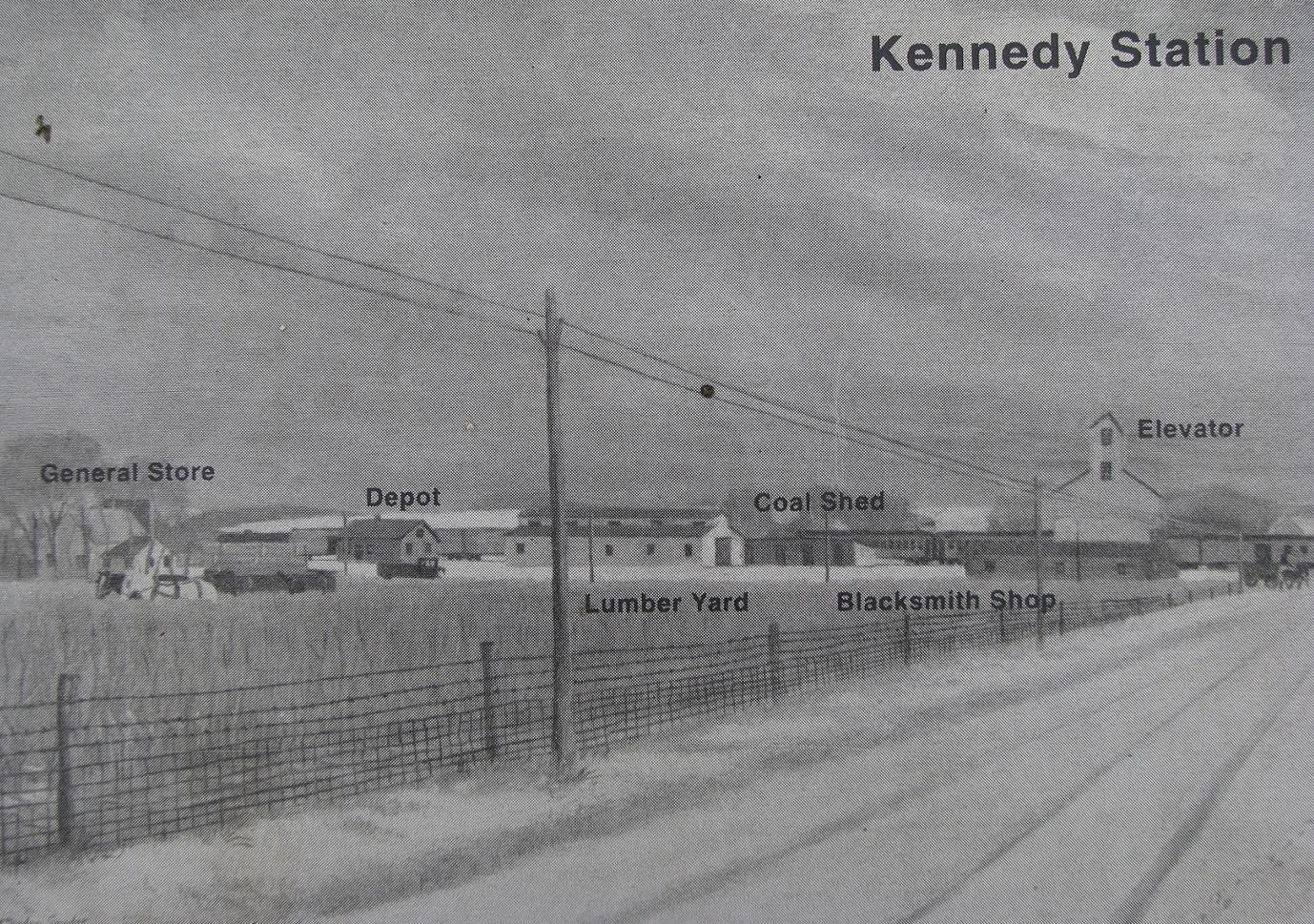 Kennedy Station Settlement